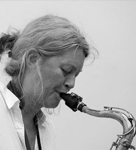 Lotte Anker 2014